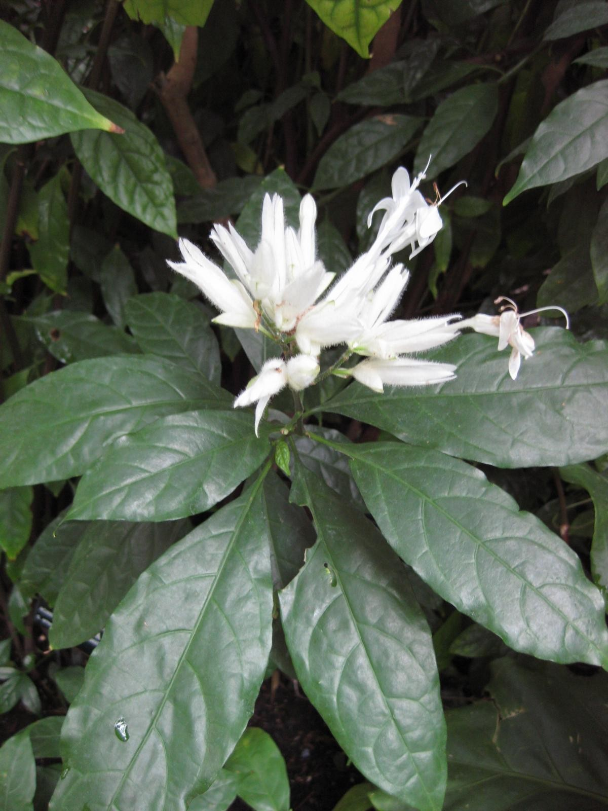 Photographed at Brooklyn Botanic Garden (New York) in September